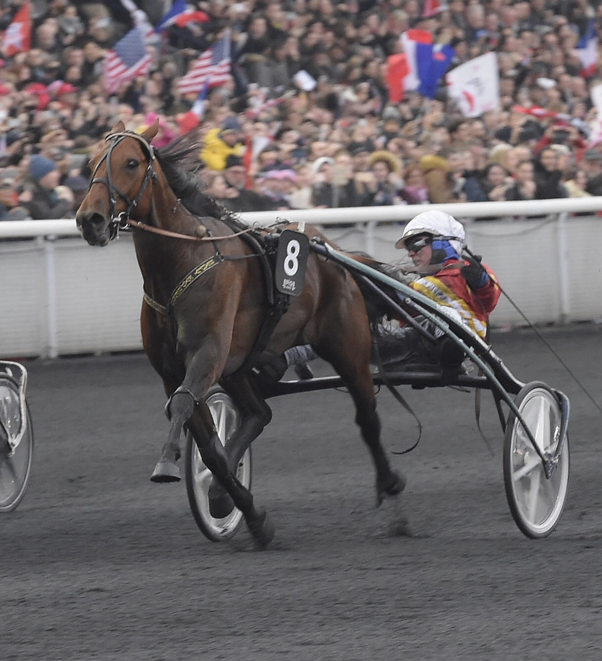 Readly Express and driver Björn Goop wins Prix d'Amerique 2018.